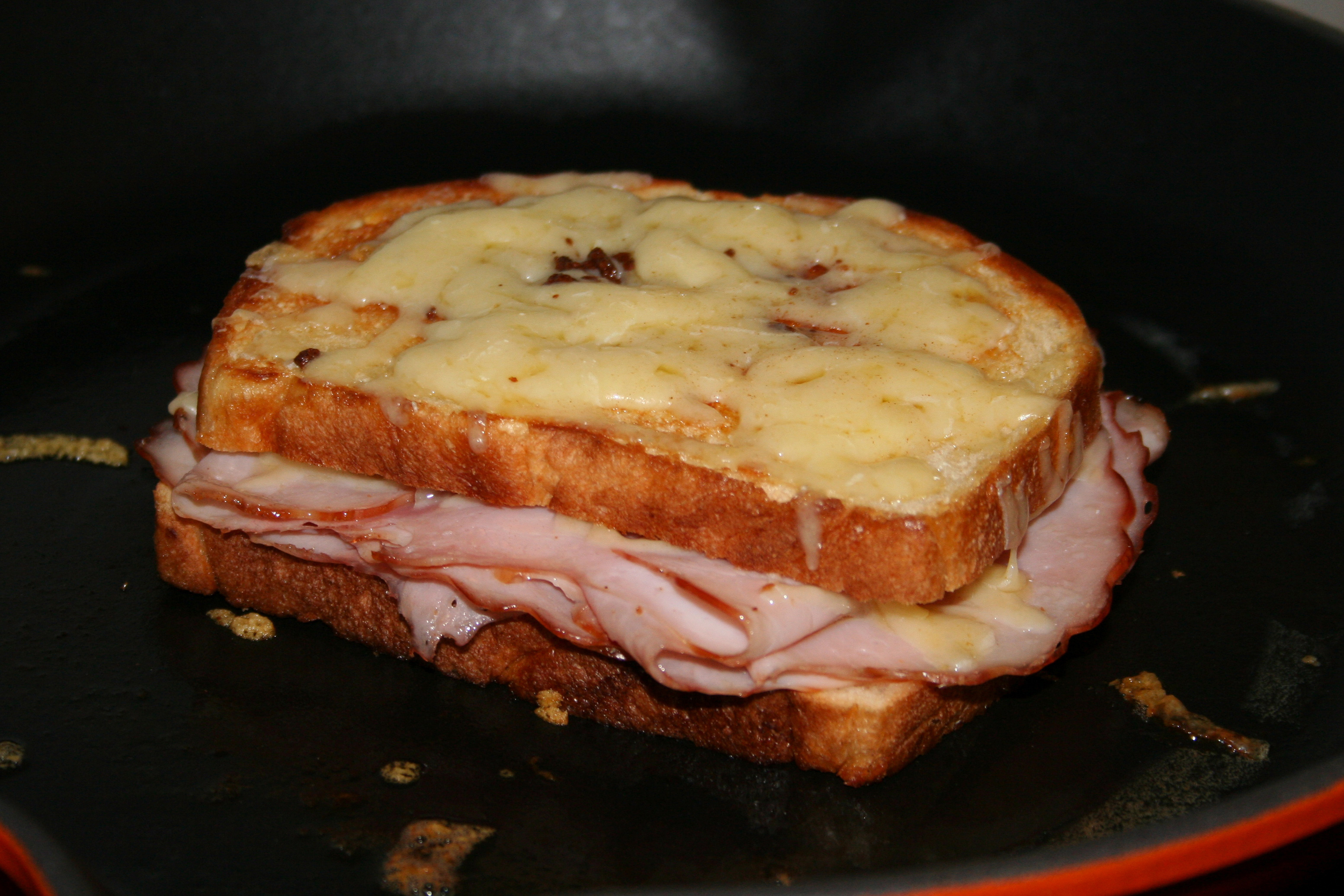 A croque monsieur sandwich still in the oven after broiling.